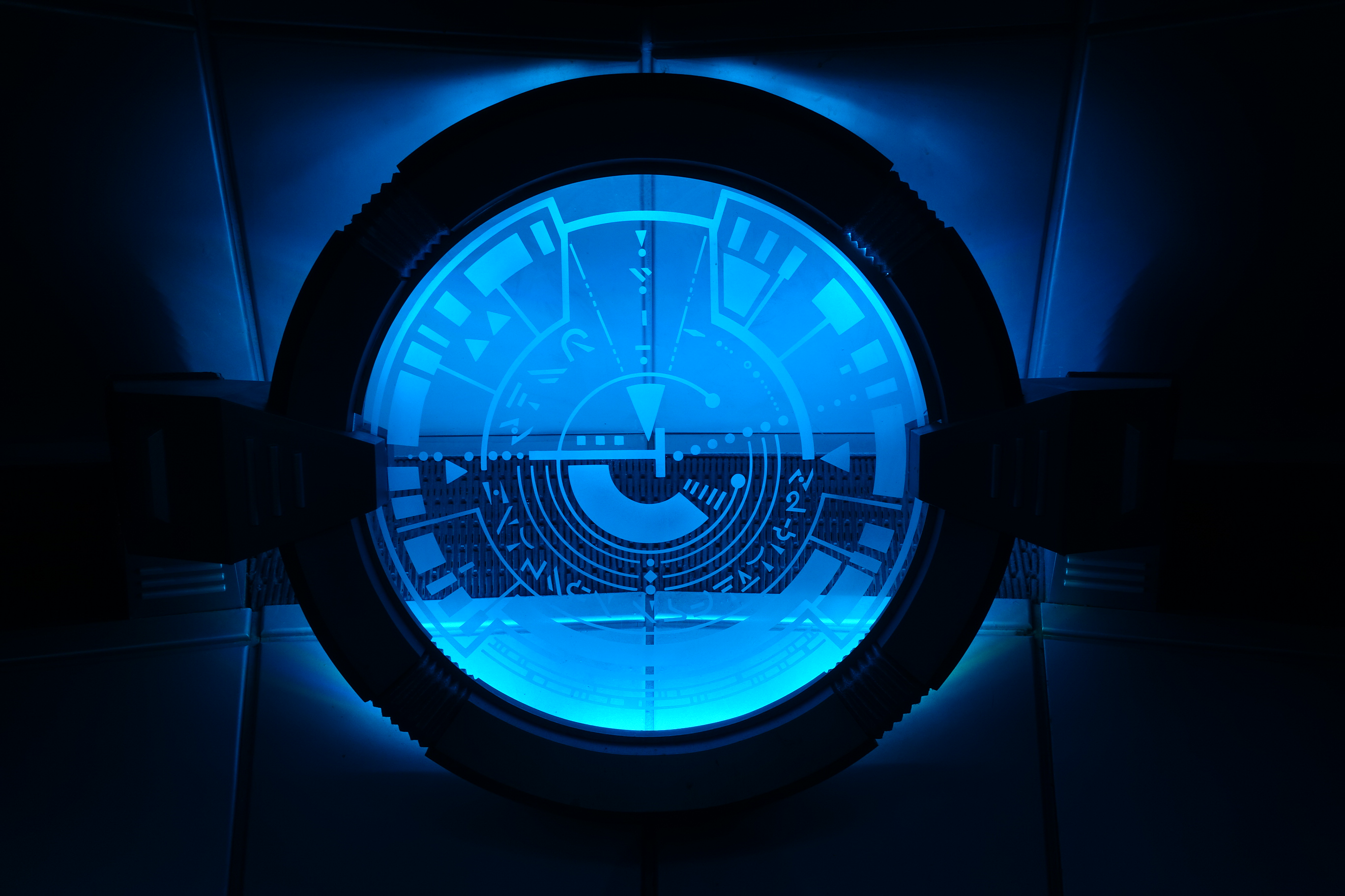 Theming located inside the saucer of King Island's Flight of Fear roller coaster